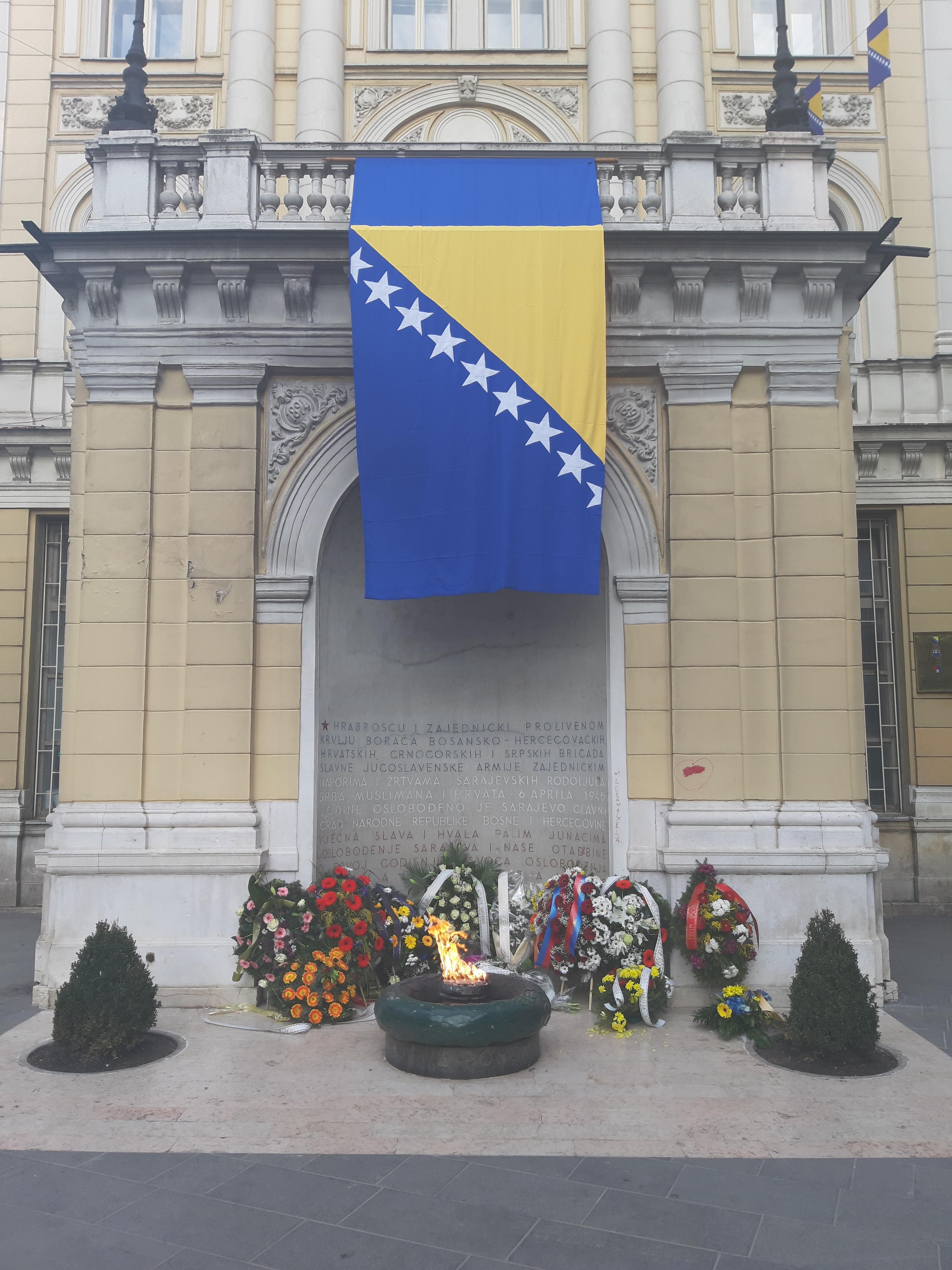 Bosnian flag on independence day on Vječna vatra